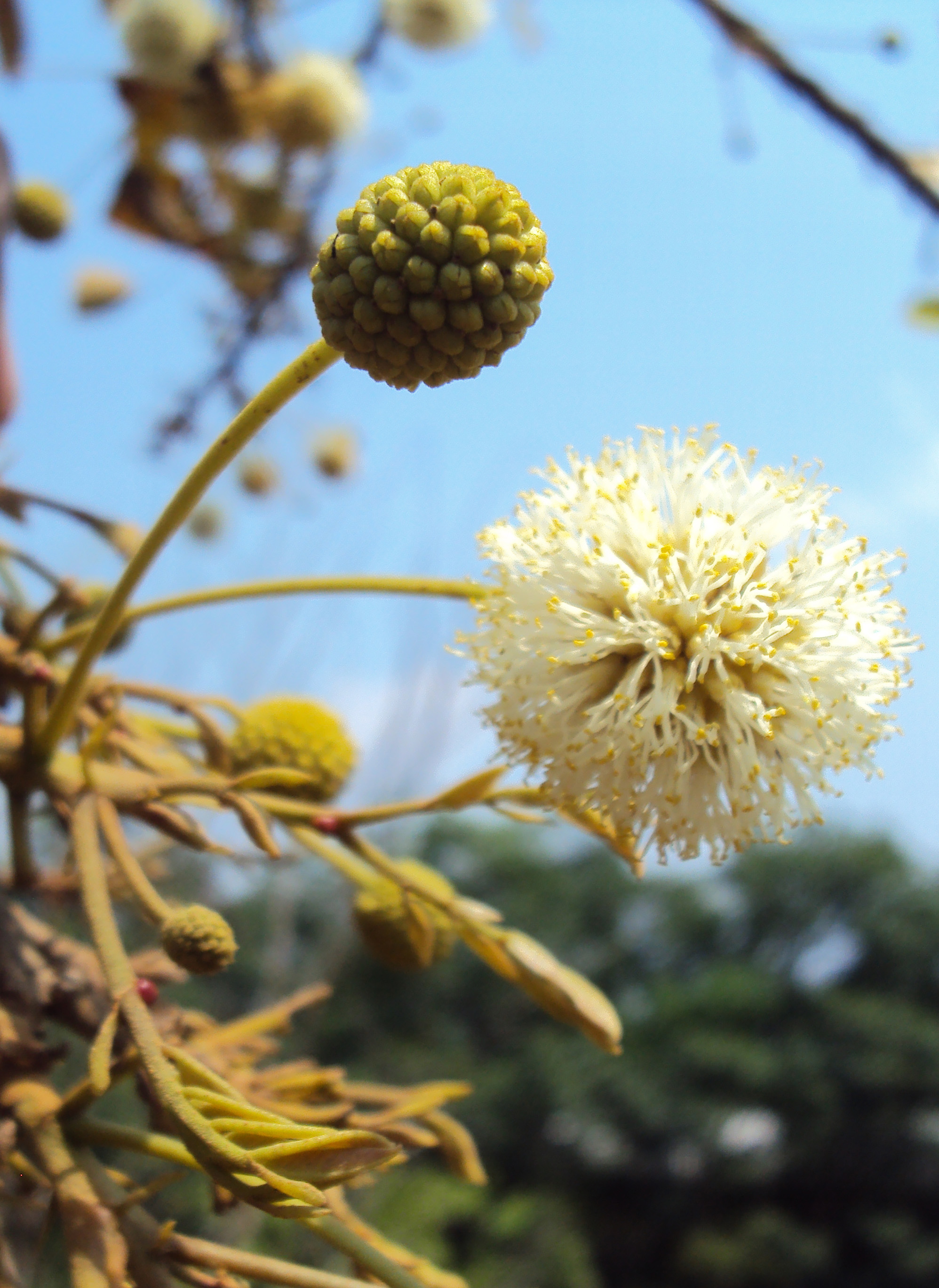 Xylia xylocarpa